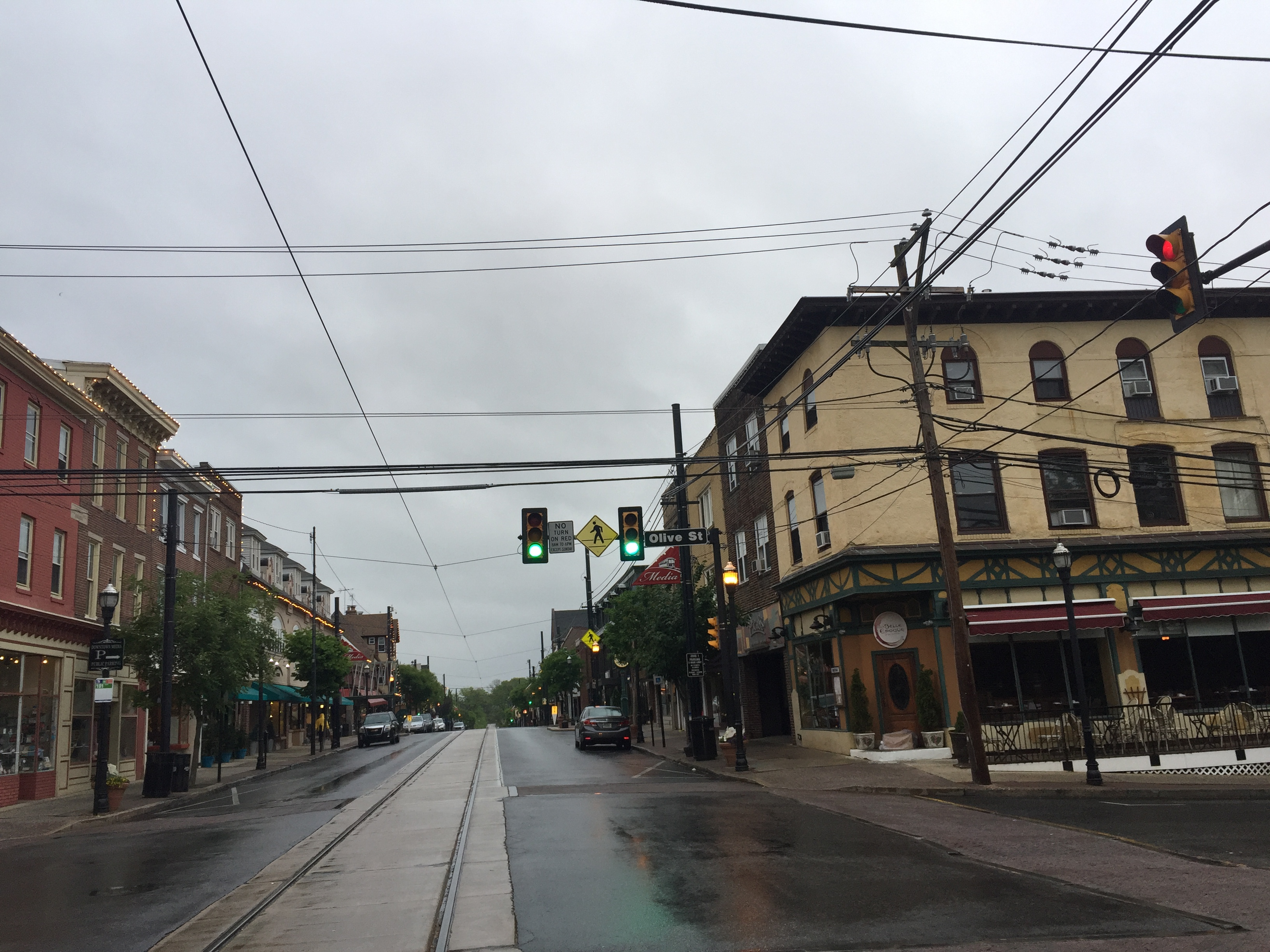 Olive Street station